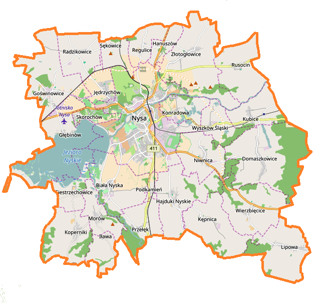 Location map of Nysa (gmina), Poland.